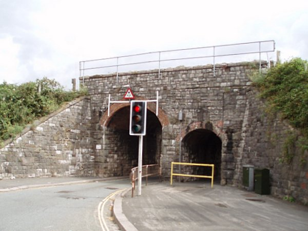 Railway bridge. The narrow road going under the railway bridge is the only vehicular access to the Ashton Vale estate in south-east Bristol.